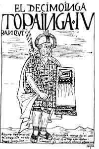 Illustration from the book El primer nueva corónica y buen gobierno